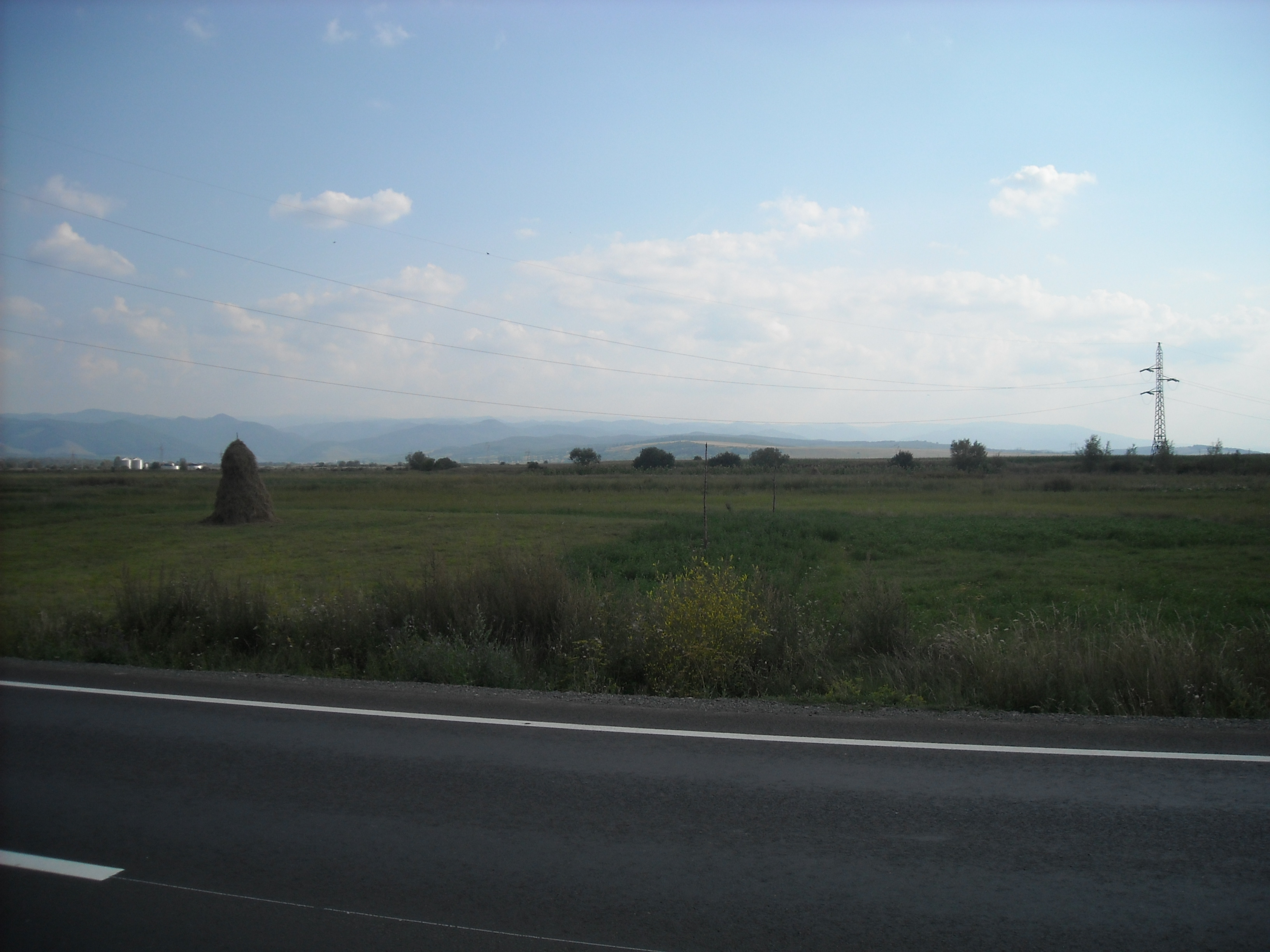 the Breadfield (Kenyérmező/Câmpul Pâinii) between Vinerea and Şibot villages, location of the battle of Breadfield in 1479